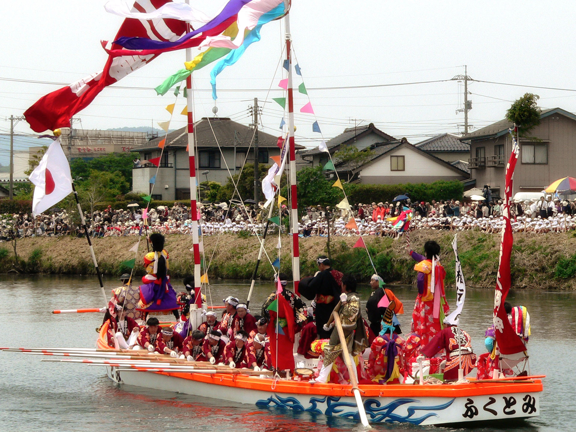 Horanenya festival, Matsue. One of the colorful boats at the Horanenya festival held only once every 12 years in Matsue, Japan, Matsue.